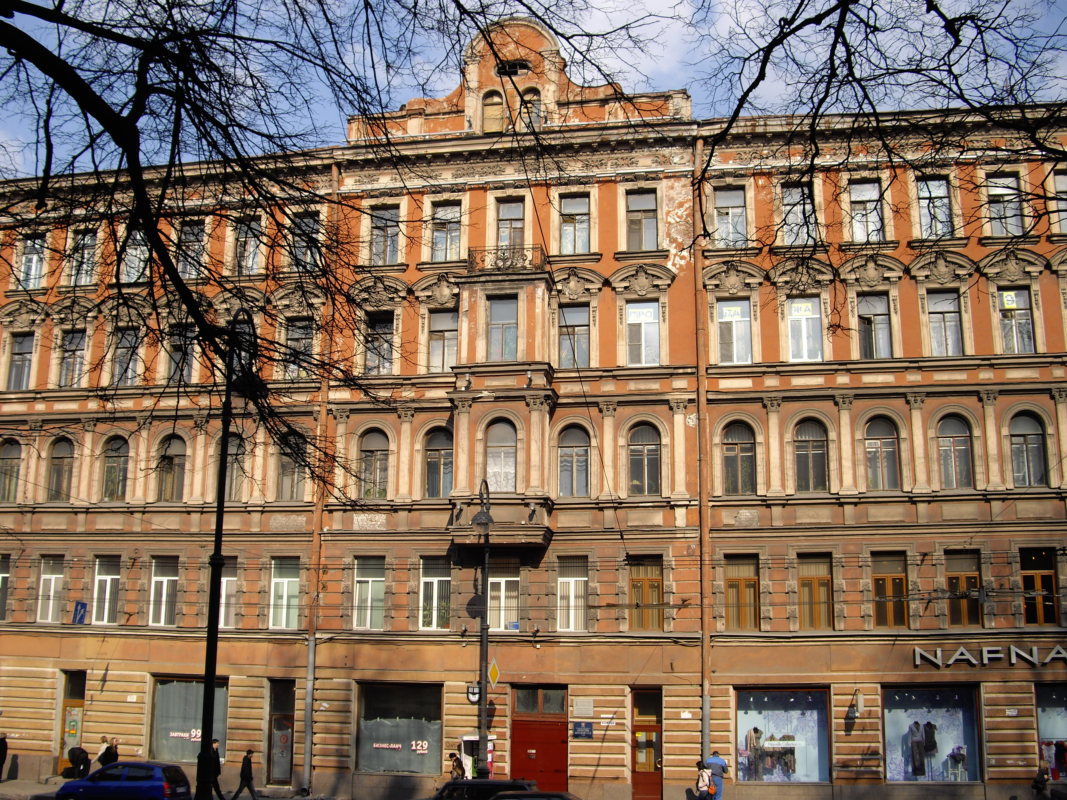 31-33, Kamennoostrovsky Prospect, Saint-Petersburg, Russia. House of Korzinin (architect Pavel Mulkhanov, 1903-1904).